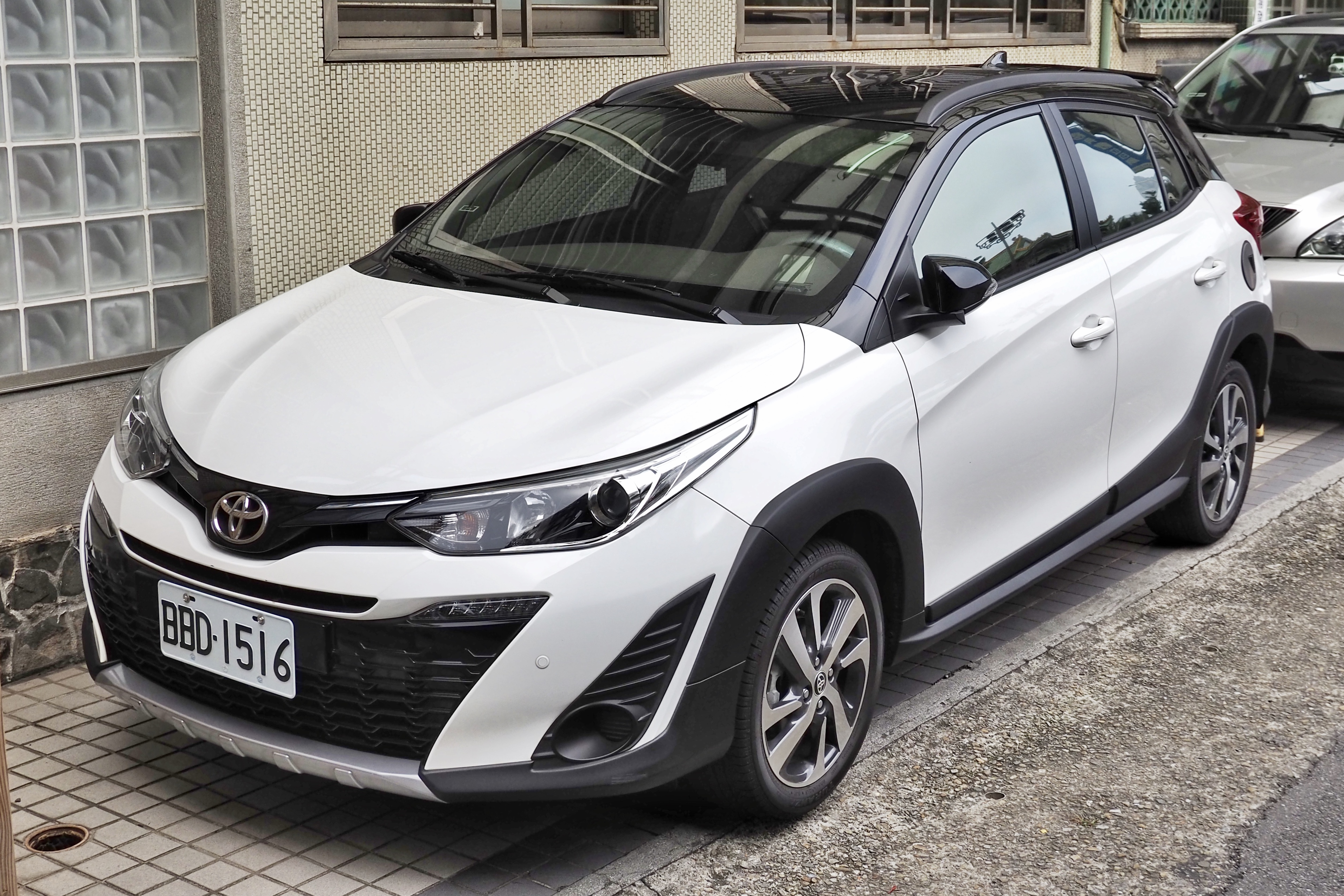 A 2018 Toyota Yaris Cross photographed in Zhongzheng District, Taipei, Taiwan